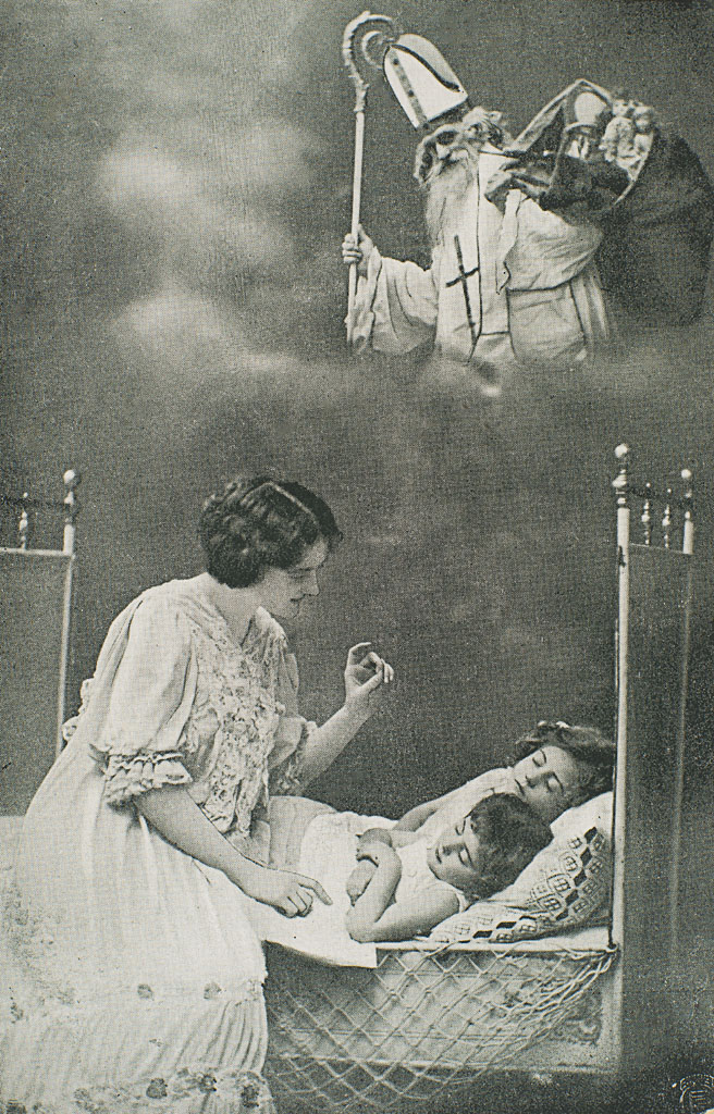 Tittel / Title: Julekort, ca 1917 Motiv / Motif: Postkort / julekort. Dato / Date: ca 1917 Fotograf / Photographer: ukjent / unknown Utgiver / Publisher: Oppi Eier / Owner Institution: Nasjonalbiblioteket / National Library of Norway Lenke / Link: Bildesignatur / Image Number: blds_01212